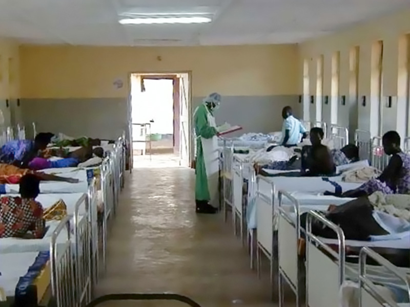 Original caption states, "Outbreak of Ebola hemorrhagic fever, Uganda, 2000. The isolation ward of Gulu Municipal Hospital, Gulu, Uganda, during an outbreak of Ebola hemorrhagic fever in October 2000. There is no known drug treatment or vaccine for this disease, which is transmitted person-to-person through contact with infected bodily fluids and has a case-fatality ratio of 50–90%. At the invitation of the Ugandan Ministry of Health, CDC sent several teams of scientists to Gulu to participate in a multinational WHO-coordinated response team. The response team helped bring the epidemic under control by providing assistance and consultation to help rapidly identify cases, provide safe care, and interrupt the spread of the virus. "